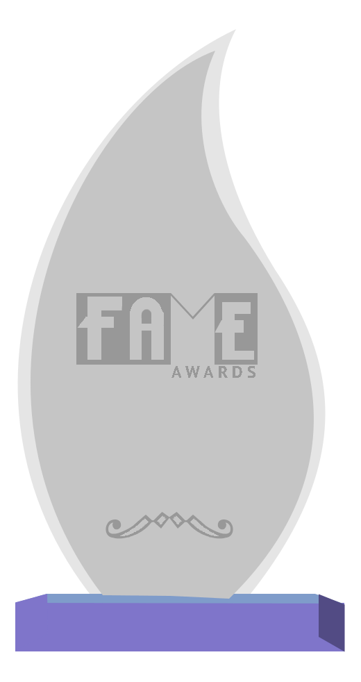 Graphic artwork representing a "F.A.M.E. Awards" trophy